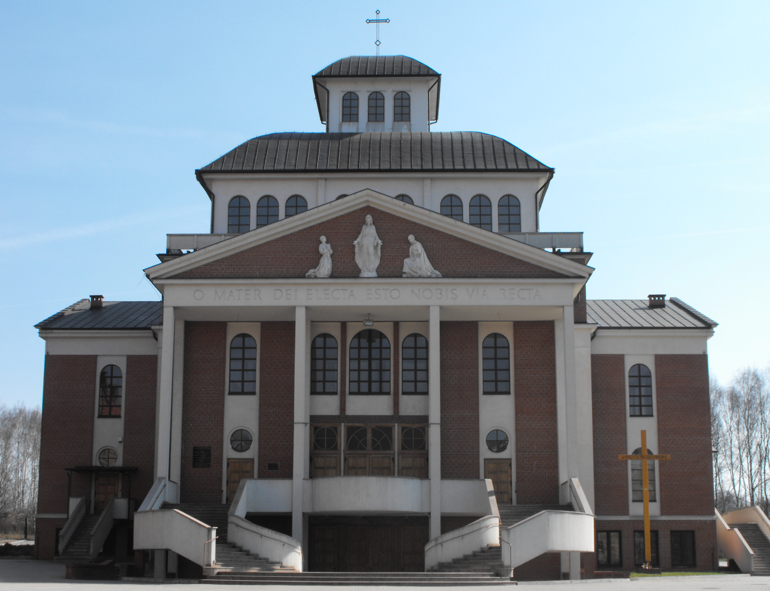 Church of St. Mary of Kochawina in Gliwice